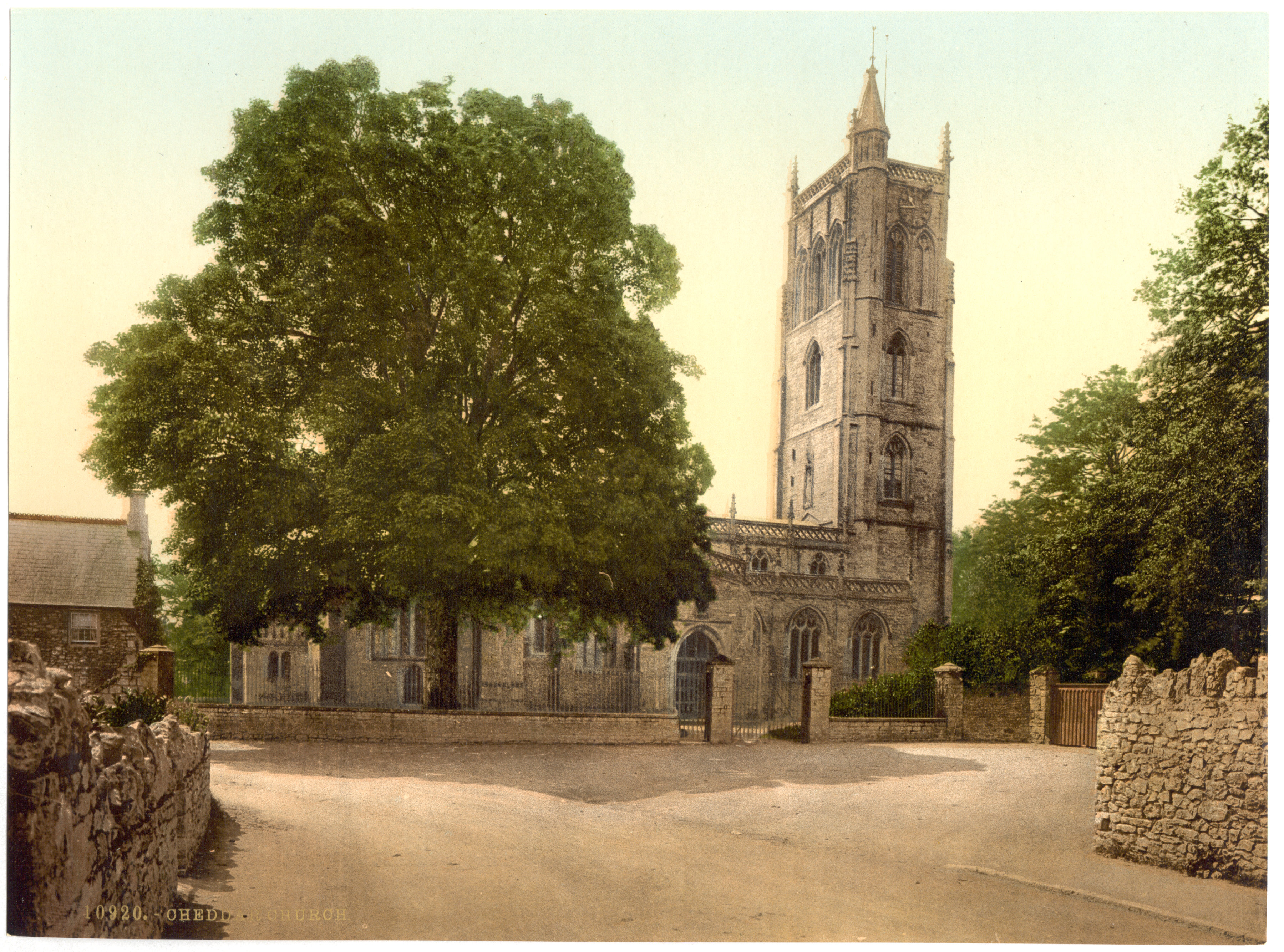 Photochrom of St Andrew's Church of England Parish Church in Cheddar